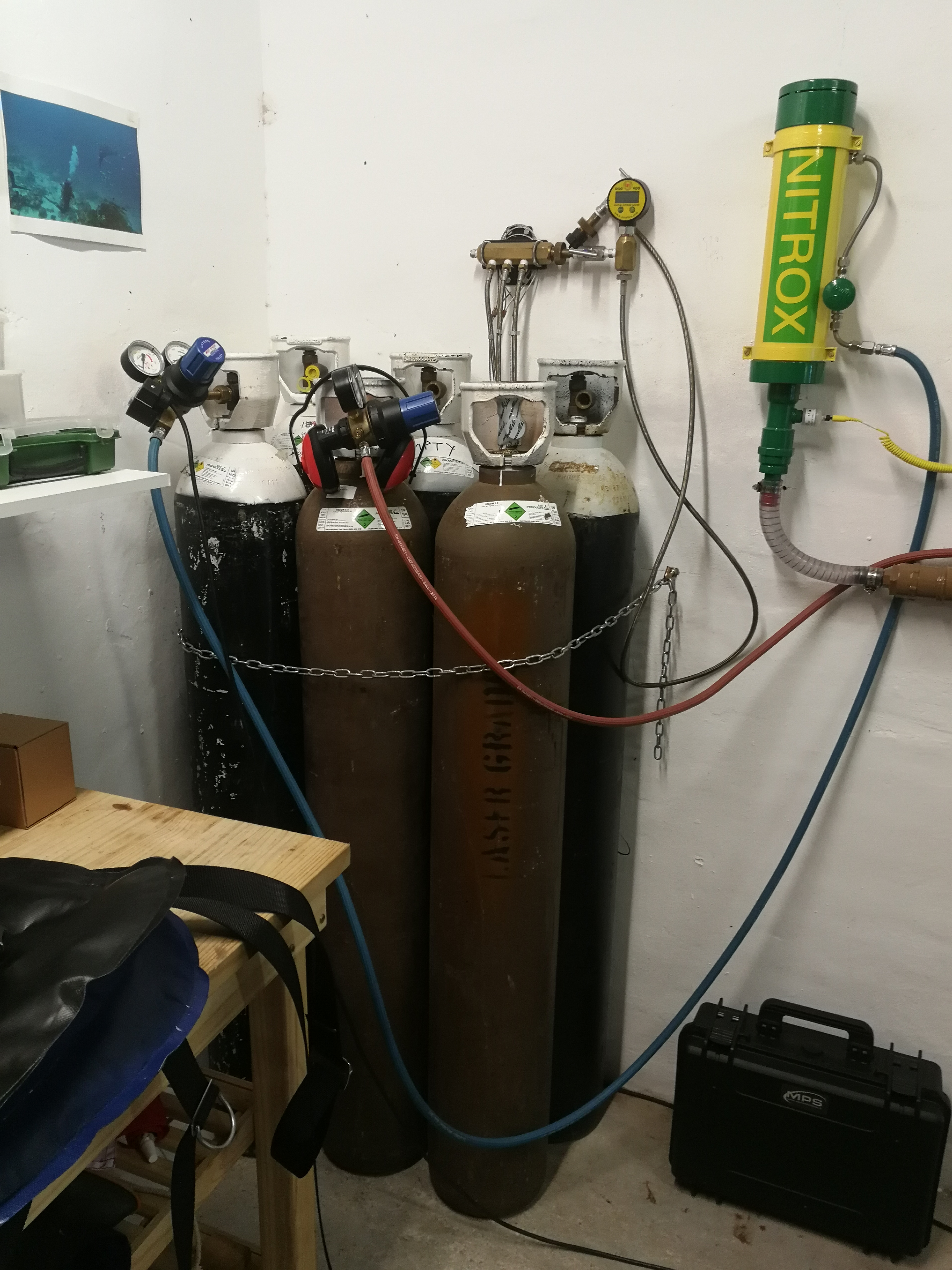 Storage cylinders for oxygen and helium for mixing breathing gas for scuba diving. Gas can be decanted at high pressure for partial pressure blending using the manifold above the cylinders, or supplied to a continuous blending mixing tube at low pressure via a regulator